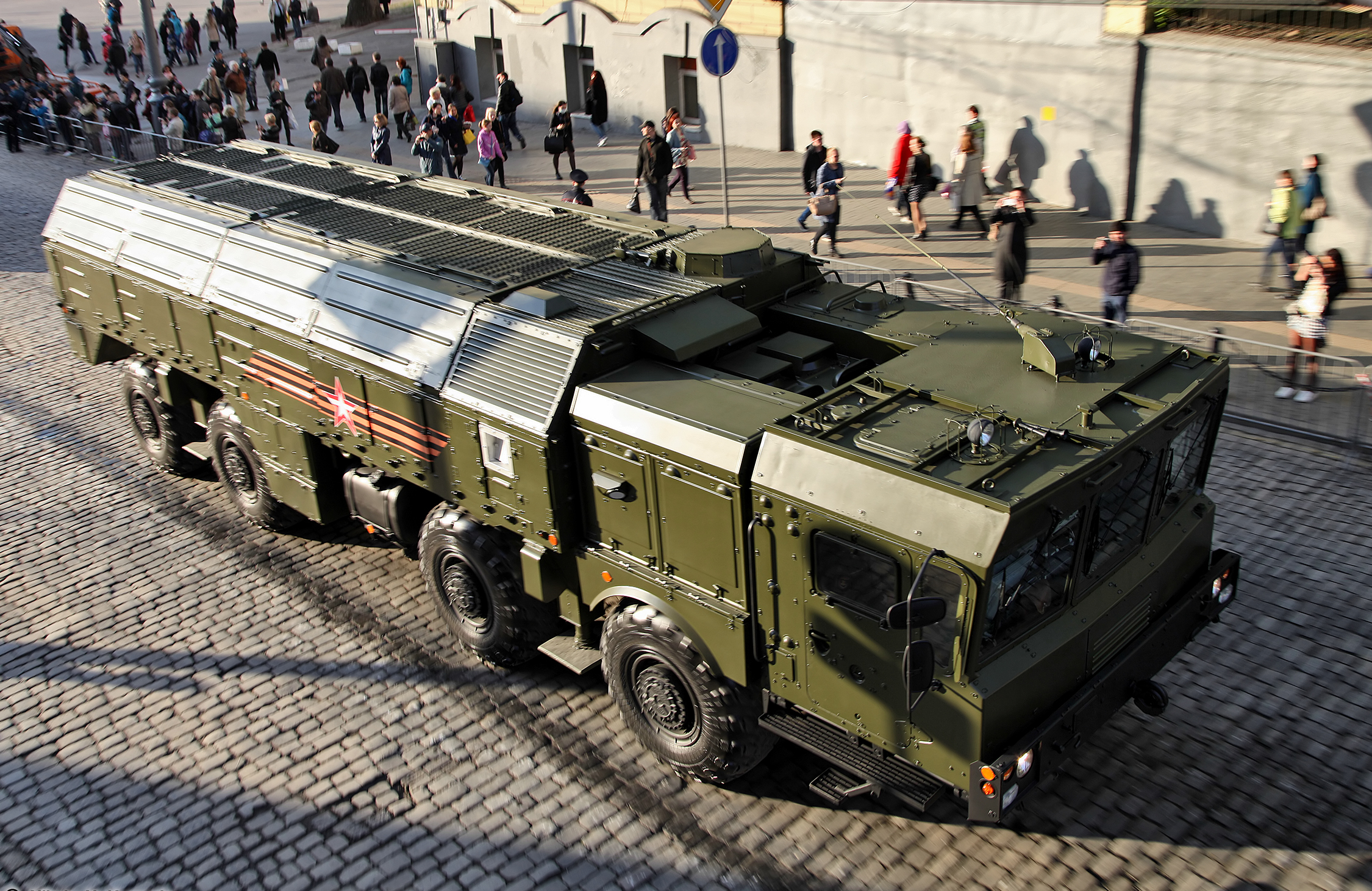 9P78-1 TEL for Iskander-M system